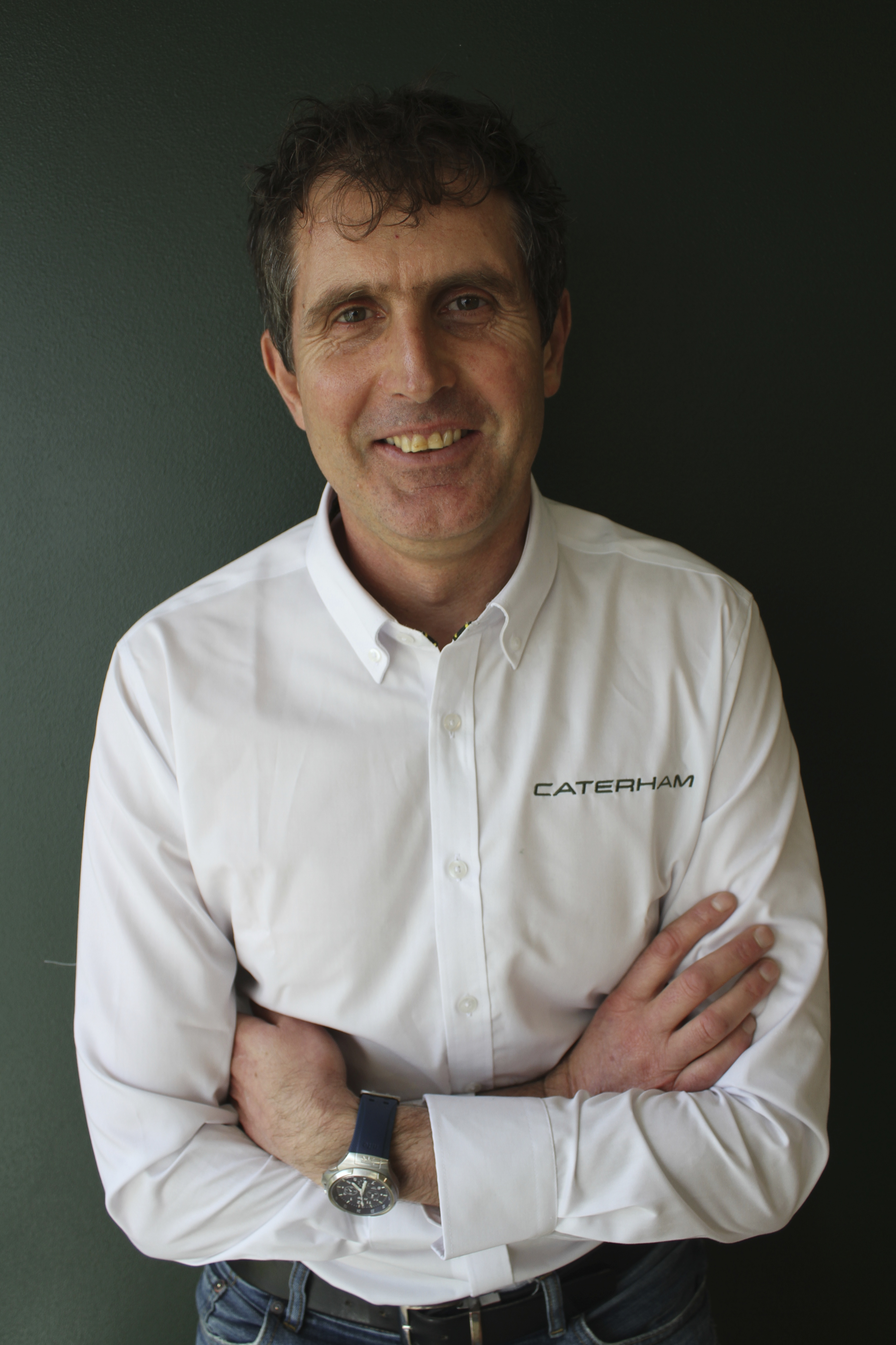 Class40_Catheram Challenge_Mike Gascoyne_Brian Thompson